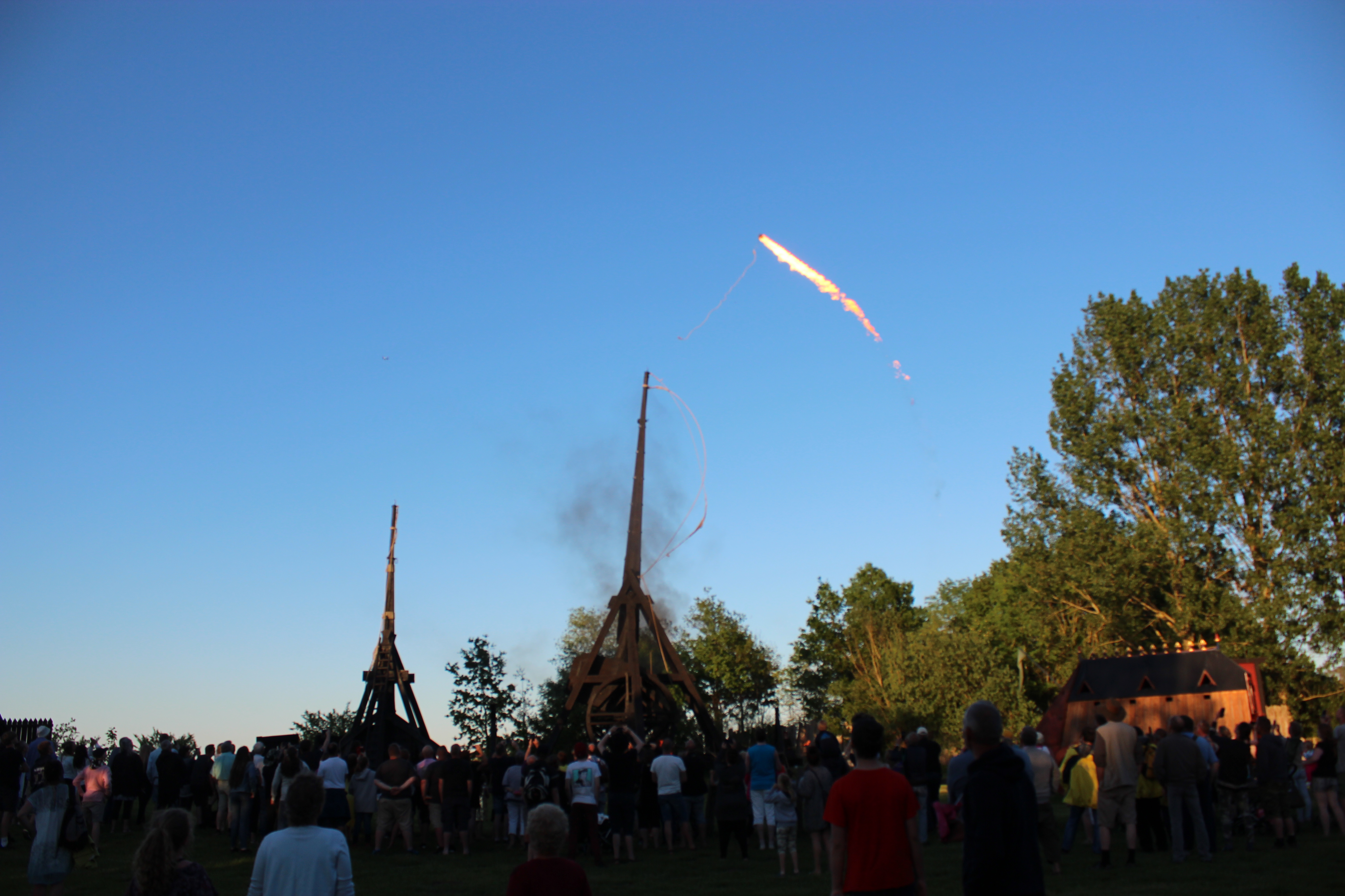 Trebuchet shooting with fire ball on Middelaldercentret, Denmark.